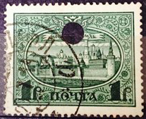 Rissian Empire, 1r stamp from the commemorative issue of 1913, 300th anniversary of the Romanov dynasty, Moscow Kremlin cancelled with punch